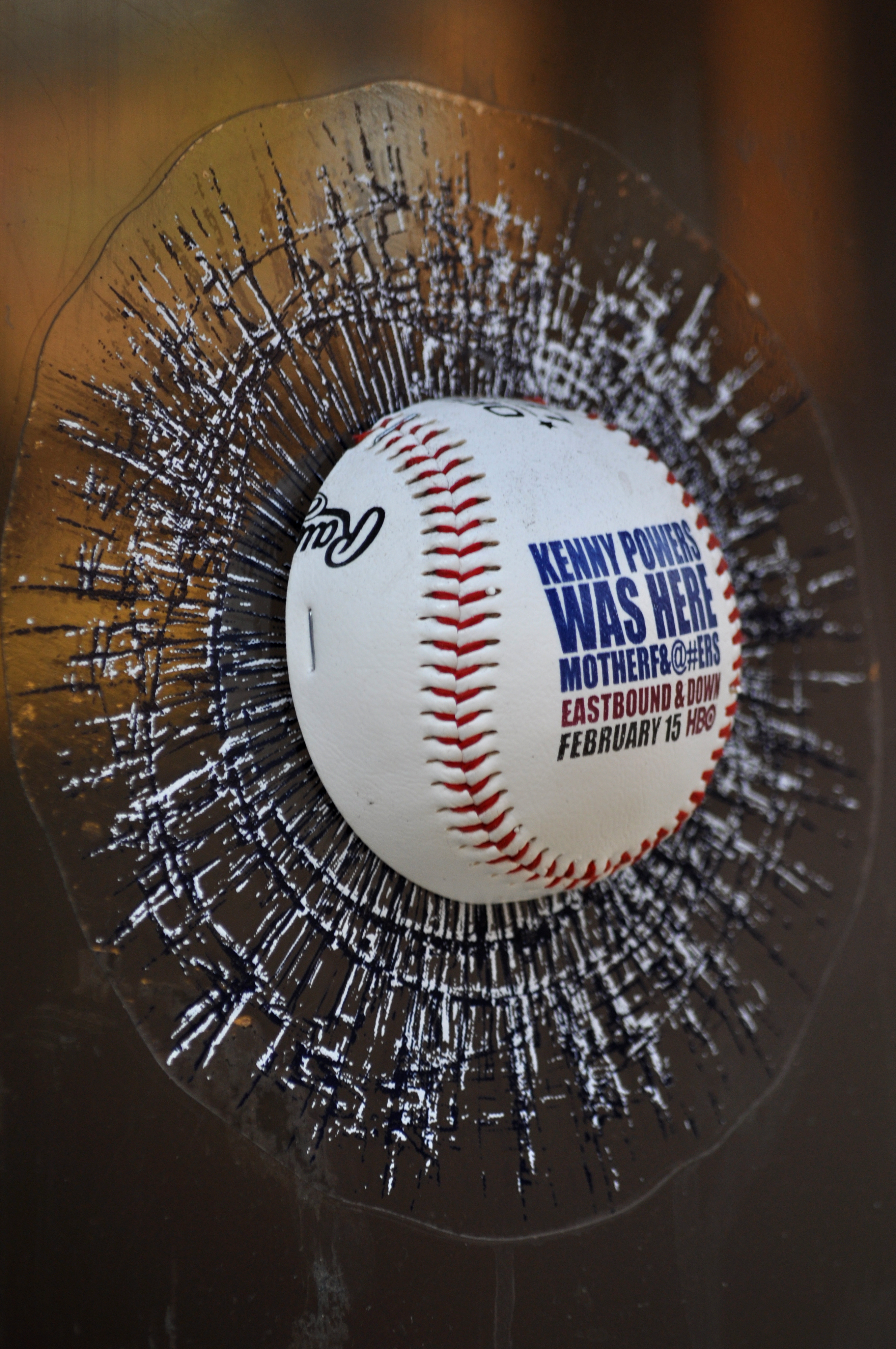 Prince Street, Soho, NYC